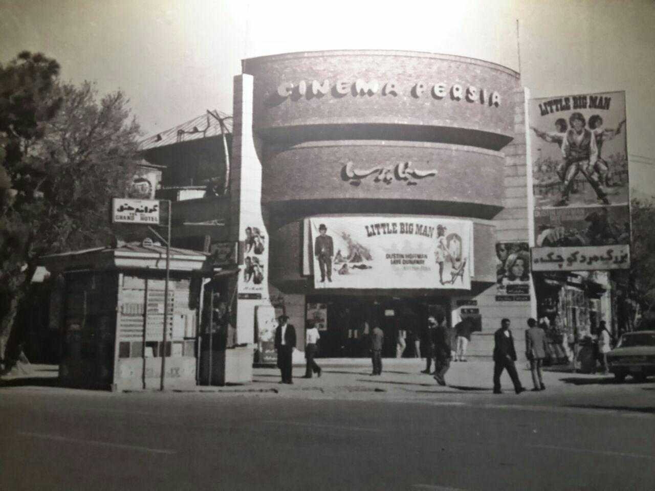 cinema in shiraz